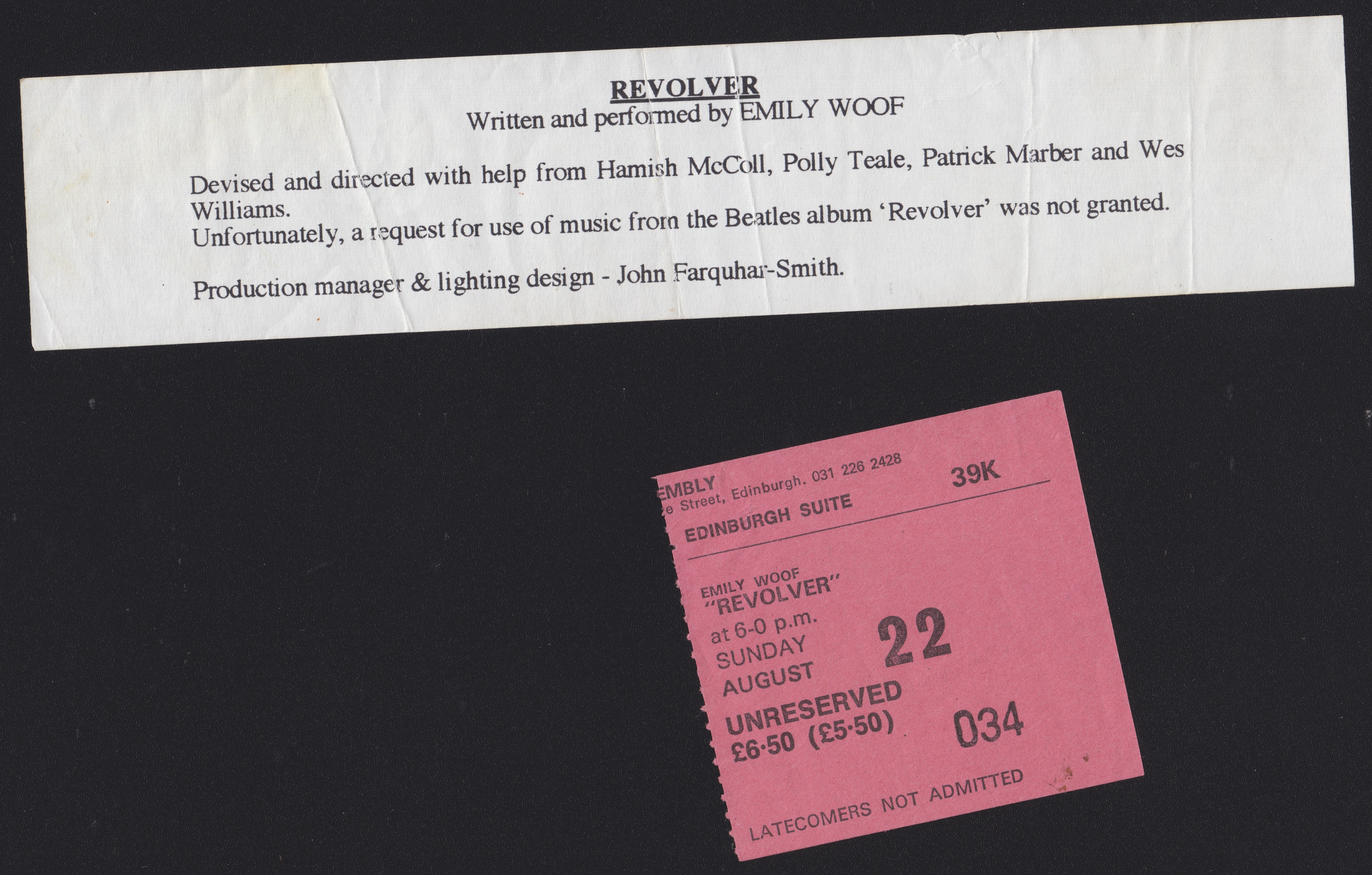 Scan of ticket stub and performance info for Emily Woof's Edinburgh production of Revolver.